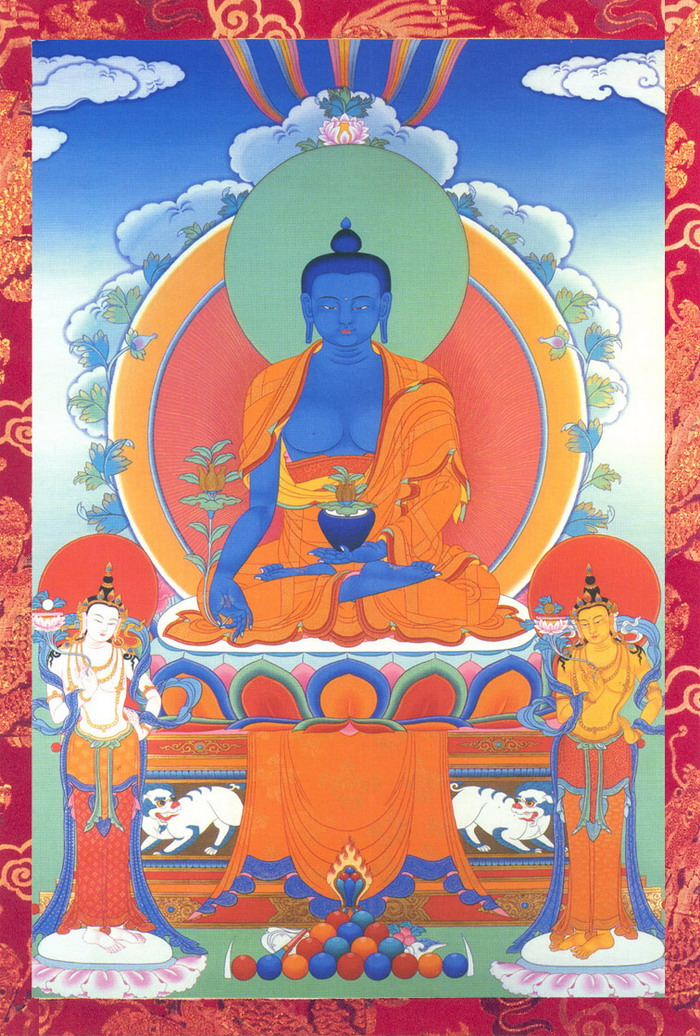 Bhaisajyaguru (Medicine buddha) with Sunlight Bodhisattva and Moonlight Bodhisattva.